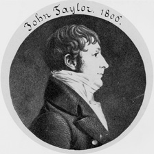 John Taylor (1770-1832), early governor of South Carolina. From the South Caroliniana Library; digitized by Biographical Directory of the United States Congress.